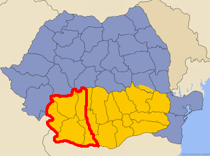 Wallachia and Lesser Wallachia.